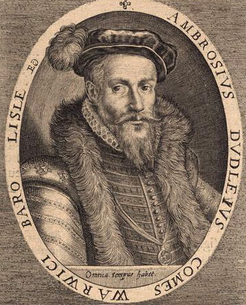 Engraving after an unknown artist